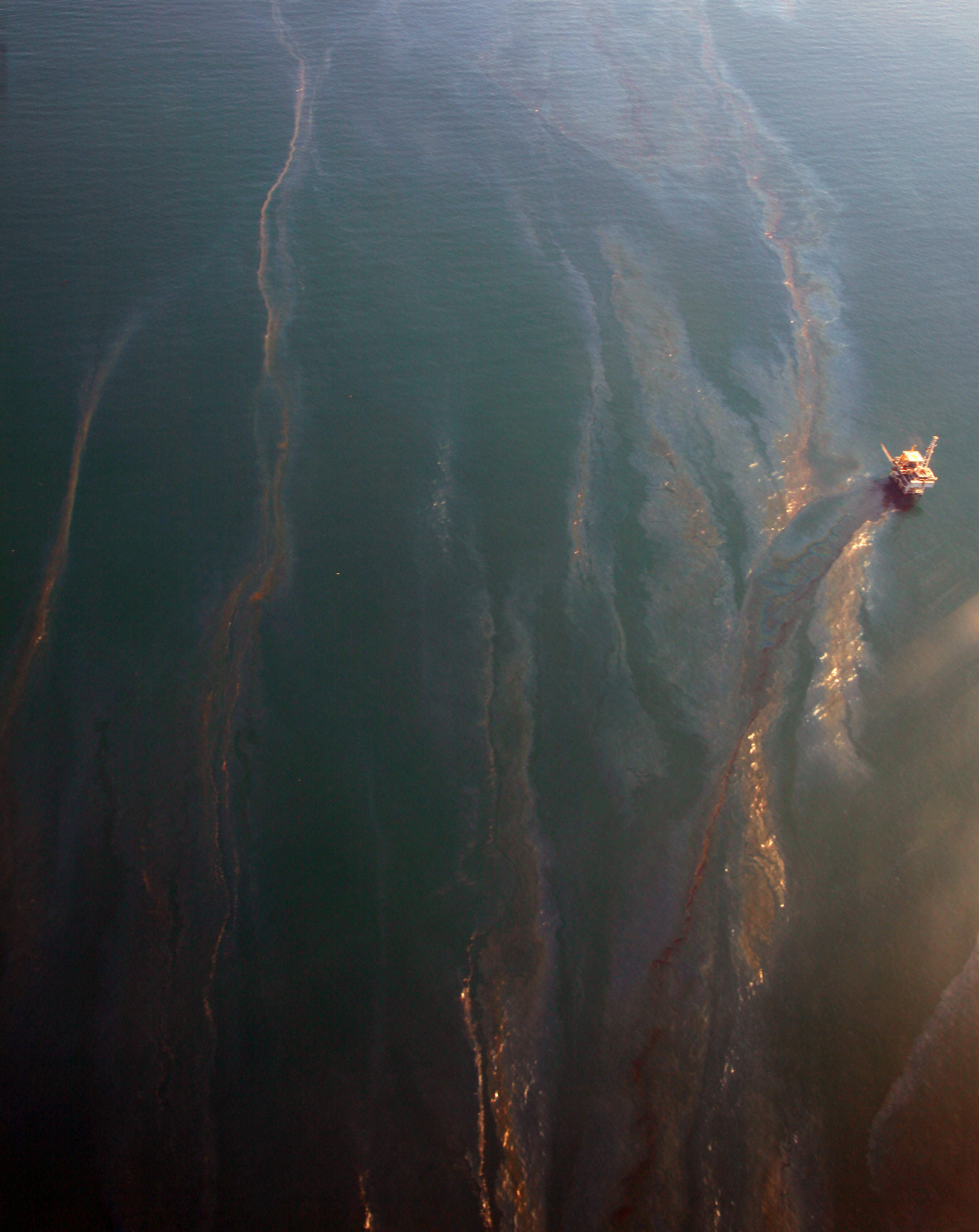 This is Platform Holly, tapping into the Elwood Oil Field, amidst the Coal Oil Point Seep Field, close to the coast by UCSB (which occupies Coal Oil Point) and Santa Barbara's airport, from which I departed just before taking this shot, as the plane banked to the left, heading toward Los Angeles. There are major oil seeps atop the Ellwood field, yielding lots of methane and This makes it appear that there is actually a spill at Holly. The quantity of oil on the water in these shots is higher than I'm used to seeing.